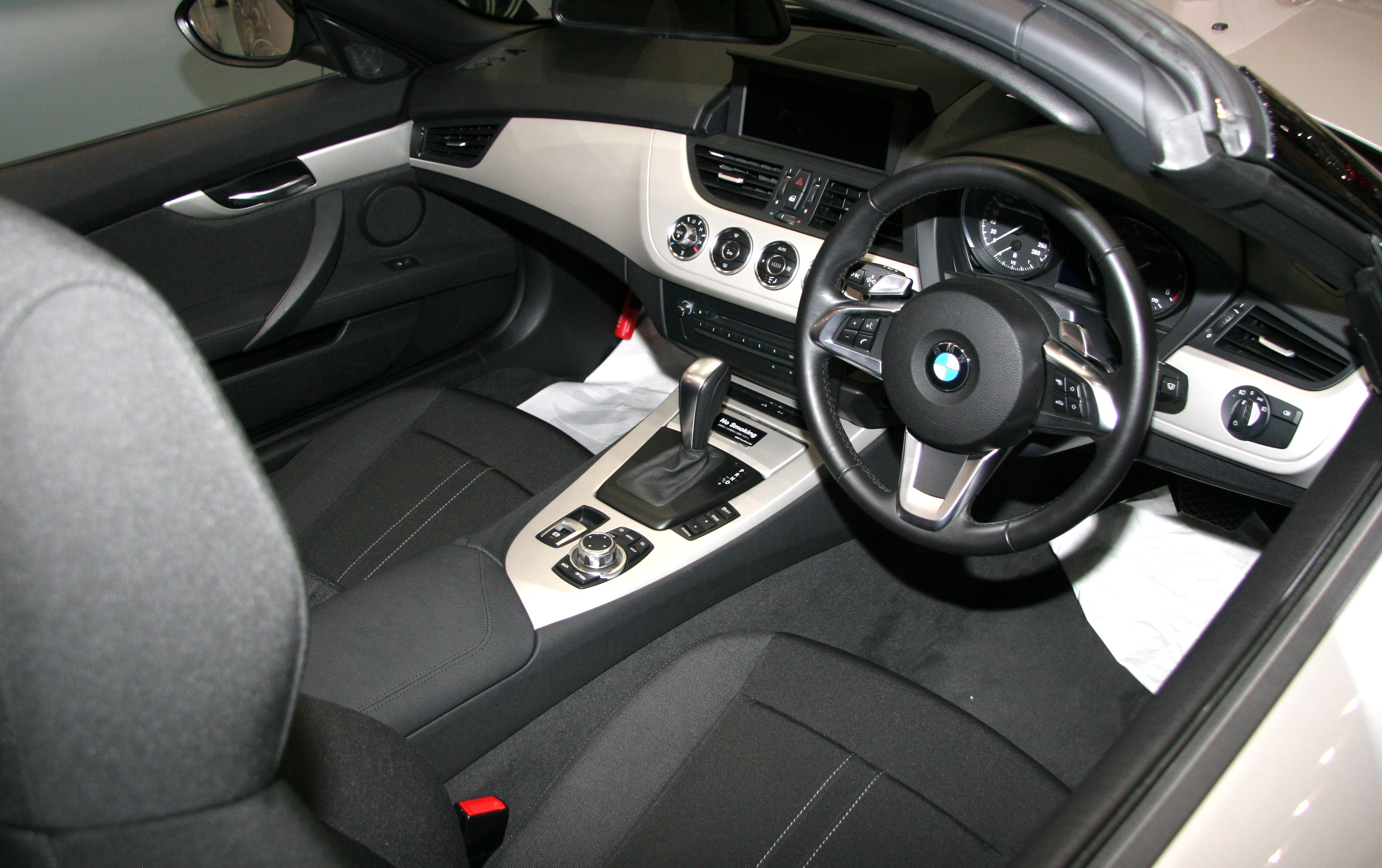 BMW Z4